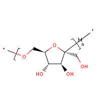 Structure of levan